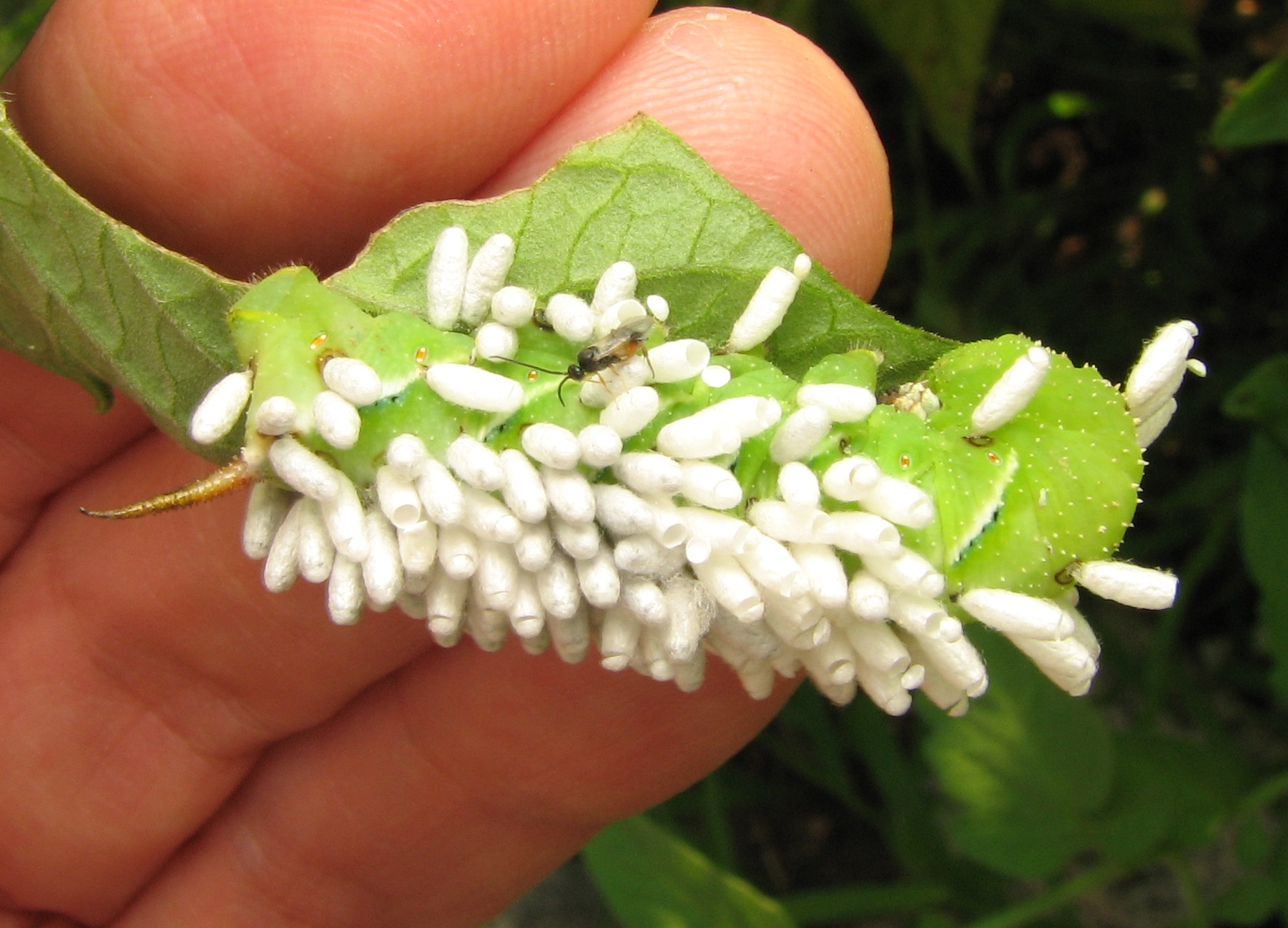 Cocoons of the parasitic wasp, Cotesia congregata, on Manduca sexta. Size of cocoons: About 3 mm. Abington, Montgomery County, Pennsylvania, USA. See video